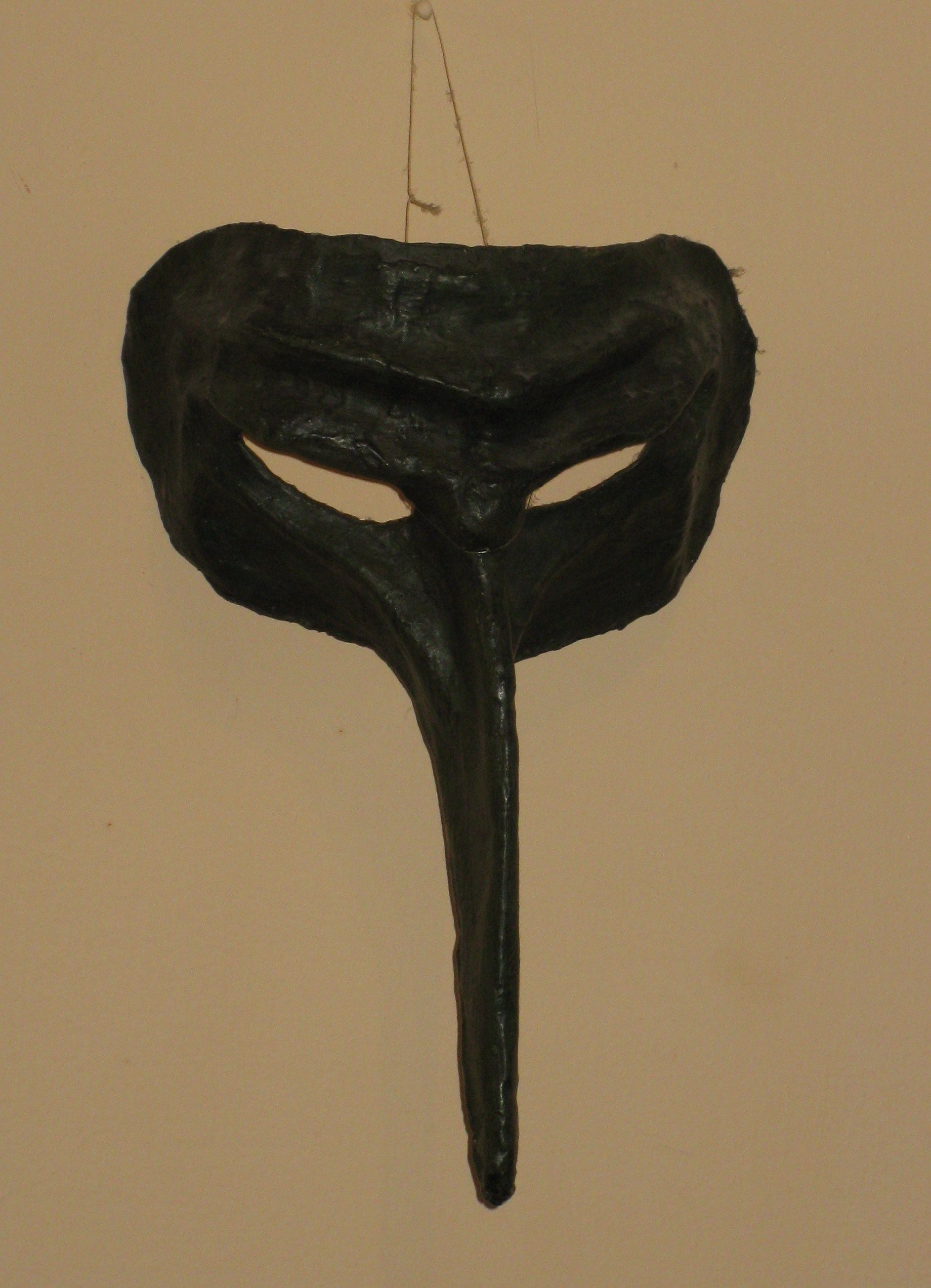 Commedia dell'arte masks